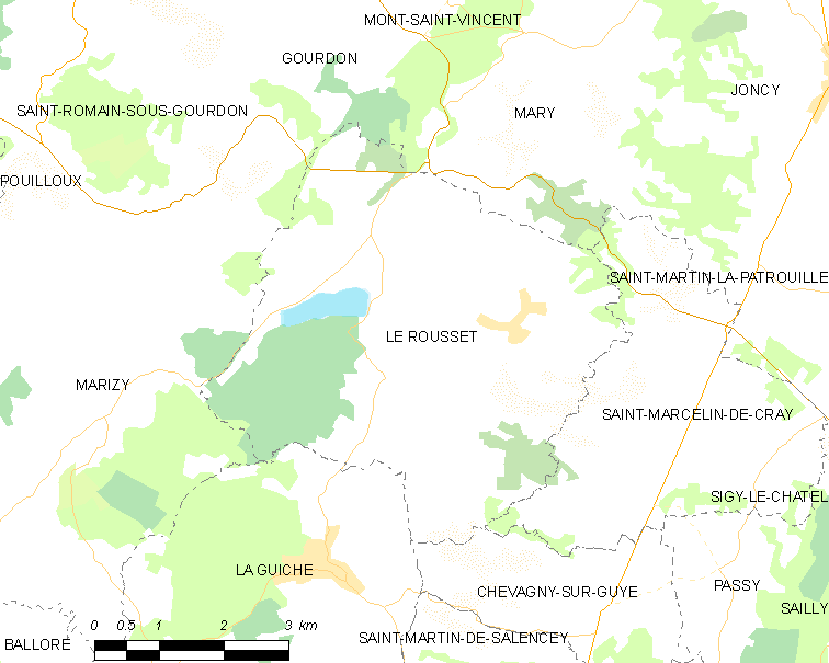 Map of French municipality